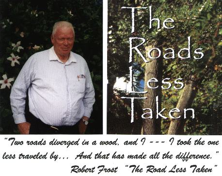 American petrologist Lorence G. Collins.